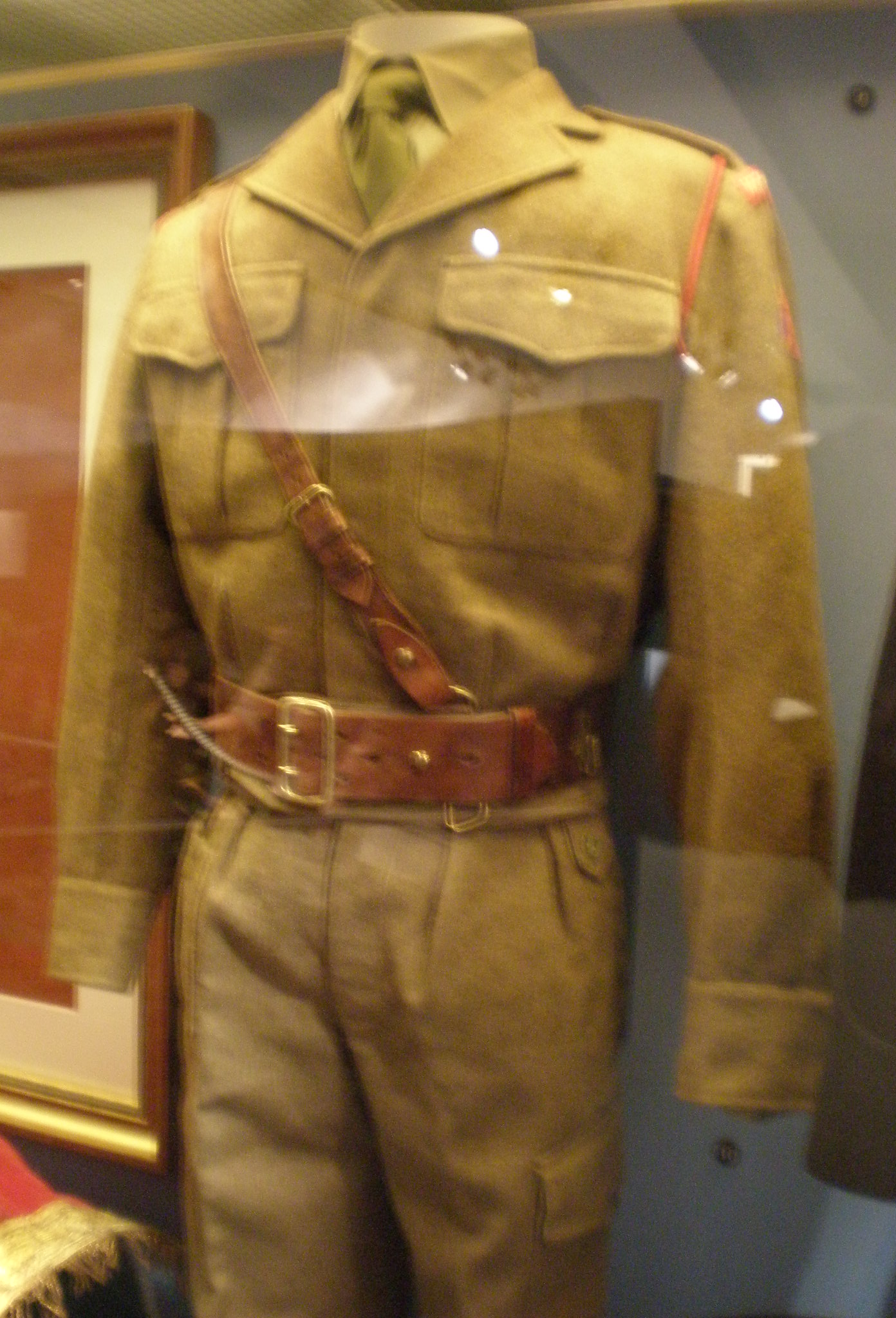 A British Army private's battle dress from the early 1960s on display at the Hong Kong Museum of Coastal Defence. However the mannequin is wearing a Sam Browne belt which would indicate a commissioned officer.